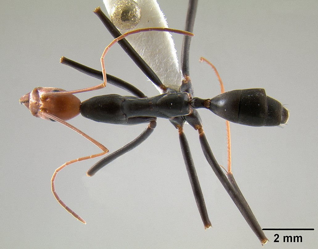 Dorsal view of ant Leptomyrmex erythrocephalus specimen casent0011746.